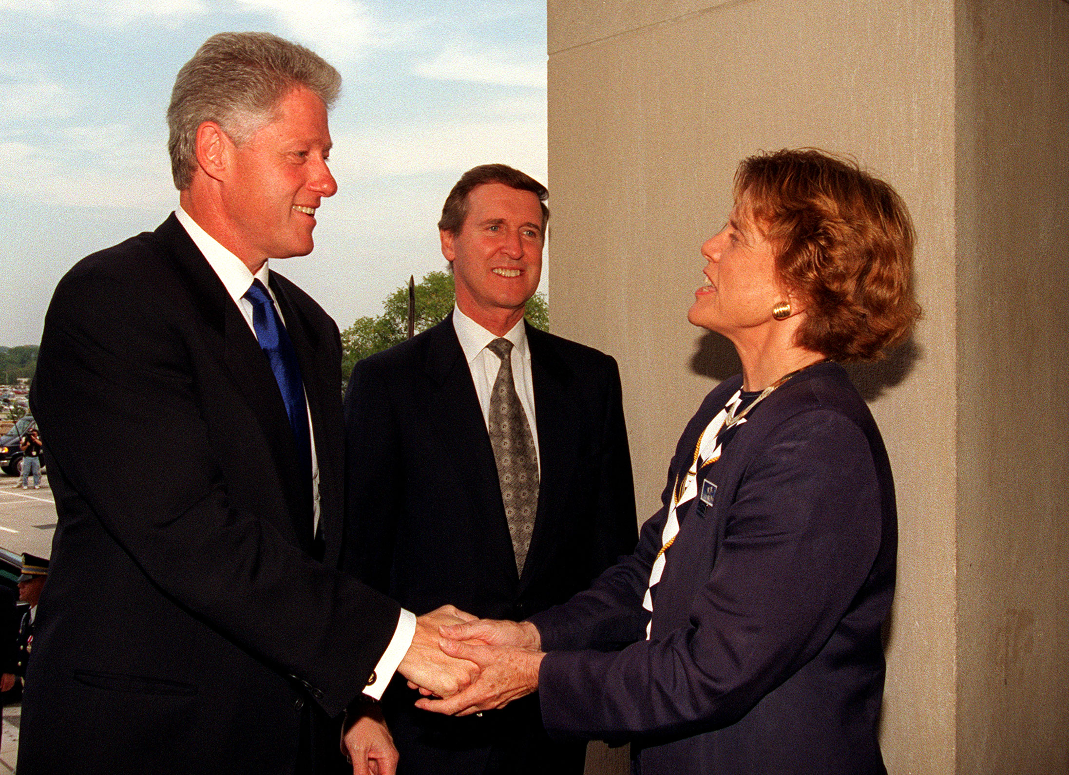 President Bill Clinton (left) is greeted by Secretary of the Air Force Sheila Widnall (right), and Secretary of Defense William S. Cohen (center) as he arrives at the Pentagon on Sept. 18, 1997. Clinton is taking part in the celebration of the 50th anniversary of the U.S. Air Force.